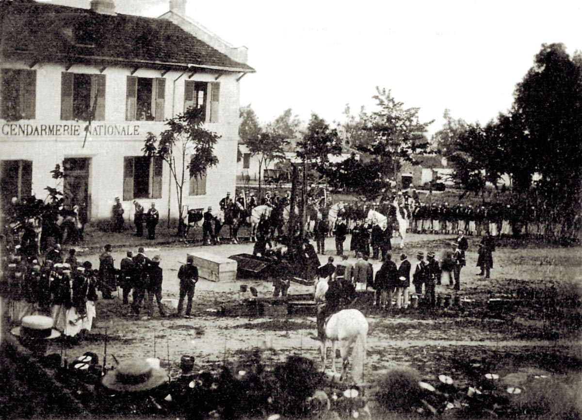 This photograph, taken from a postcard published in Colonial Algeria around 1900, depicts the execution of Areski L'Bashir, a sort of Algerian "Robin Hood" or "Jesse James" character. Guillotined the 14 mai 1895 at the age of 28.